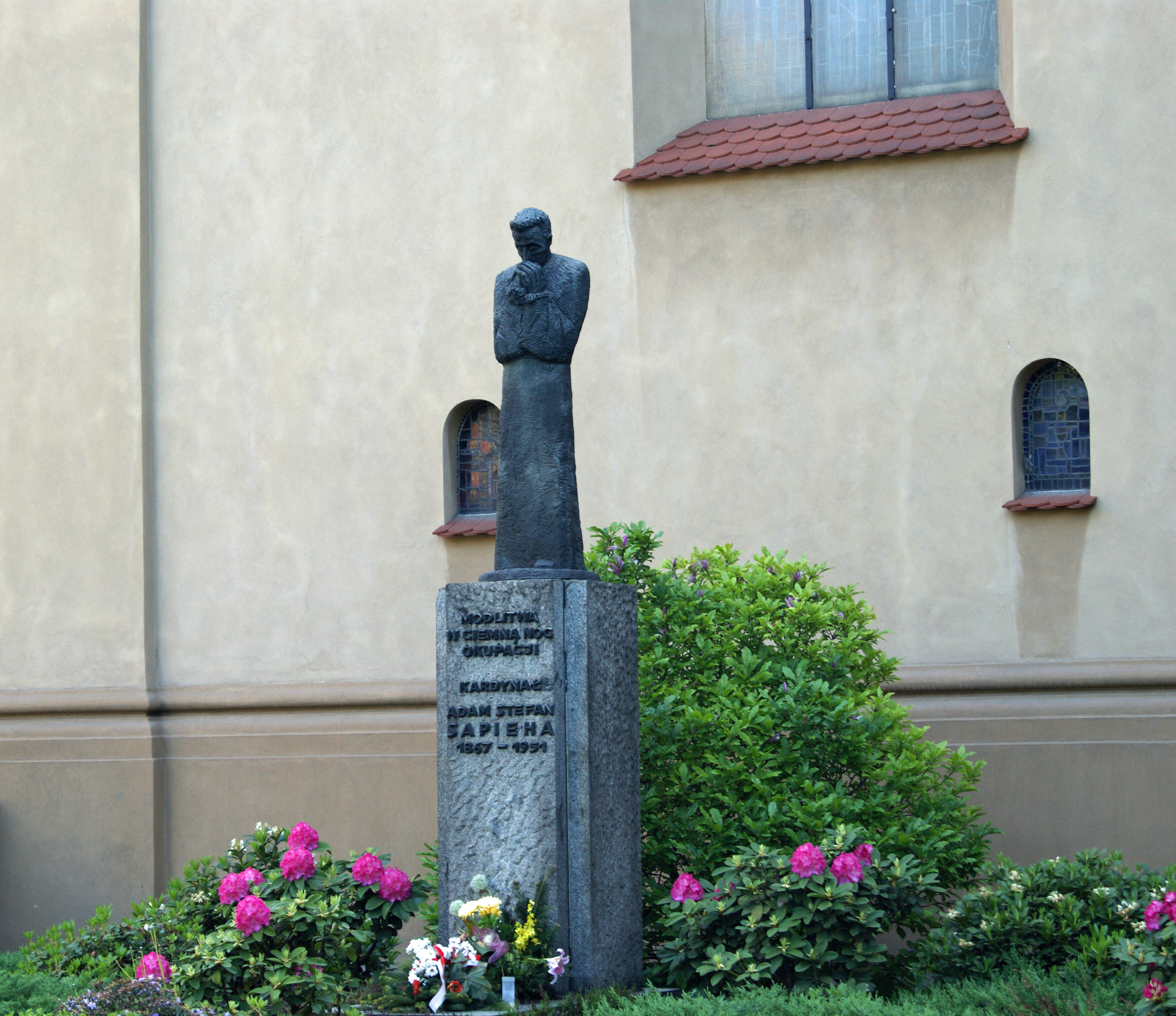 Cardinal Adam Sapieha monument, Franciszkanska street, Old Town, Krakow, Poland